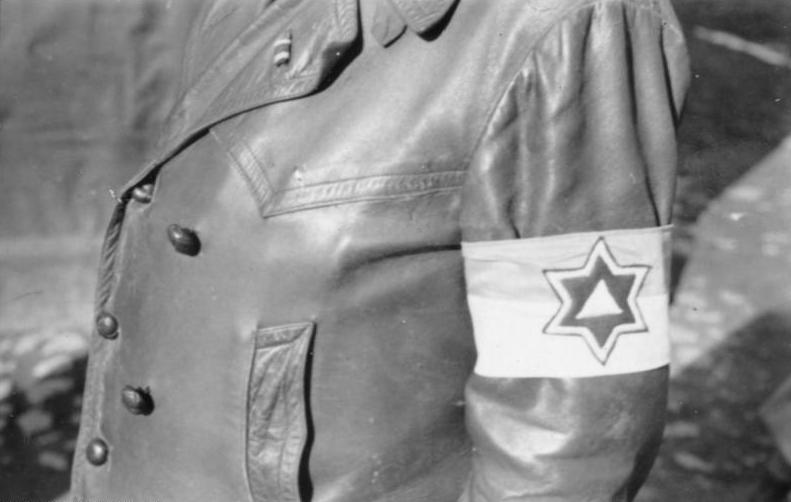 The armband of the Litzmannstadt Ghetto jewish police officer.